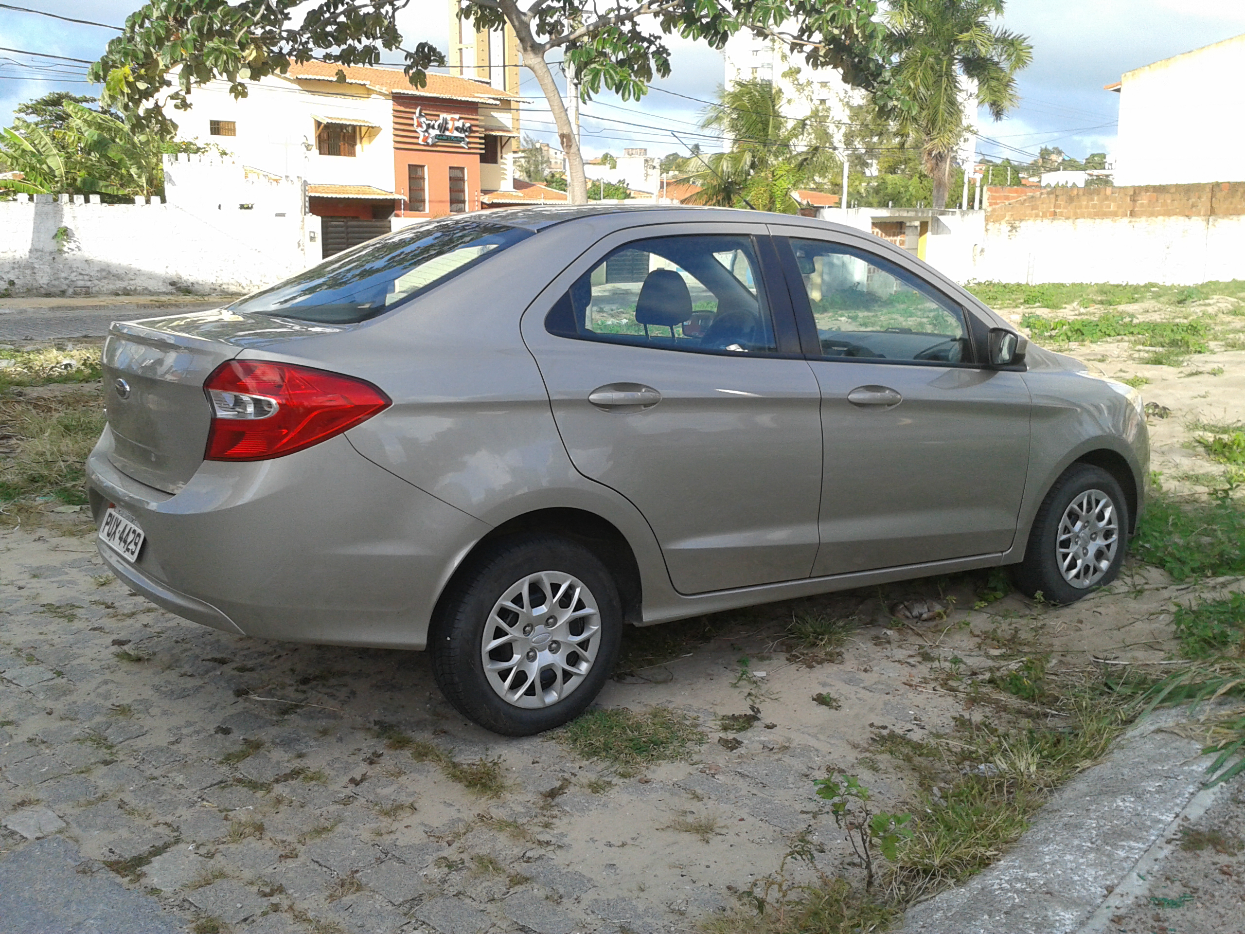 Ford Ka sedan